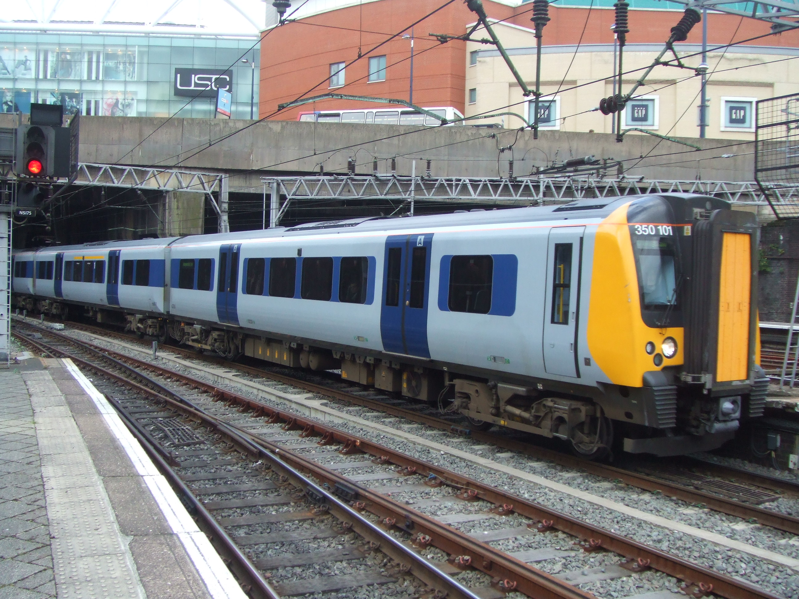 Siemens (Praha & Uerdingen) Class 350 "Desiro" outer-suburban 25k v ac overhead 4-car emu No.350 101 of Central Trains/Silverlink Joint "West Coast" operator entering Birmingham New St, 09/07.